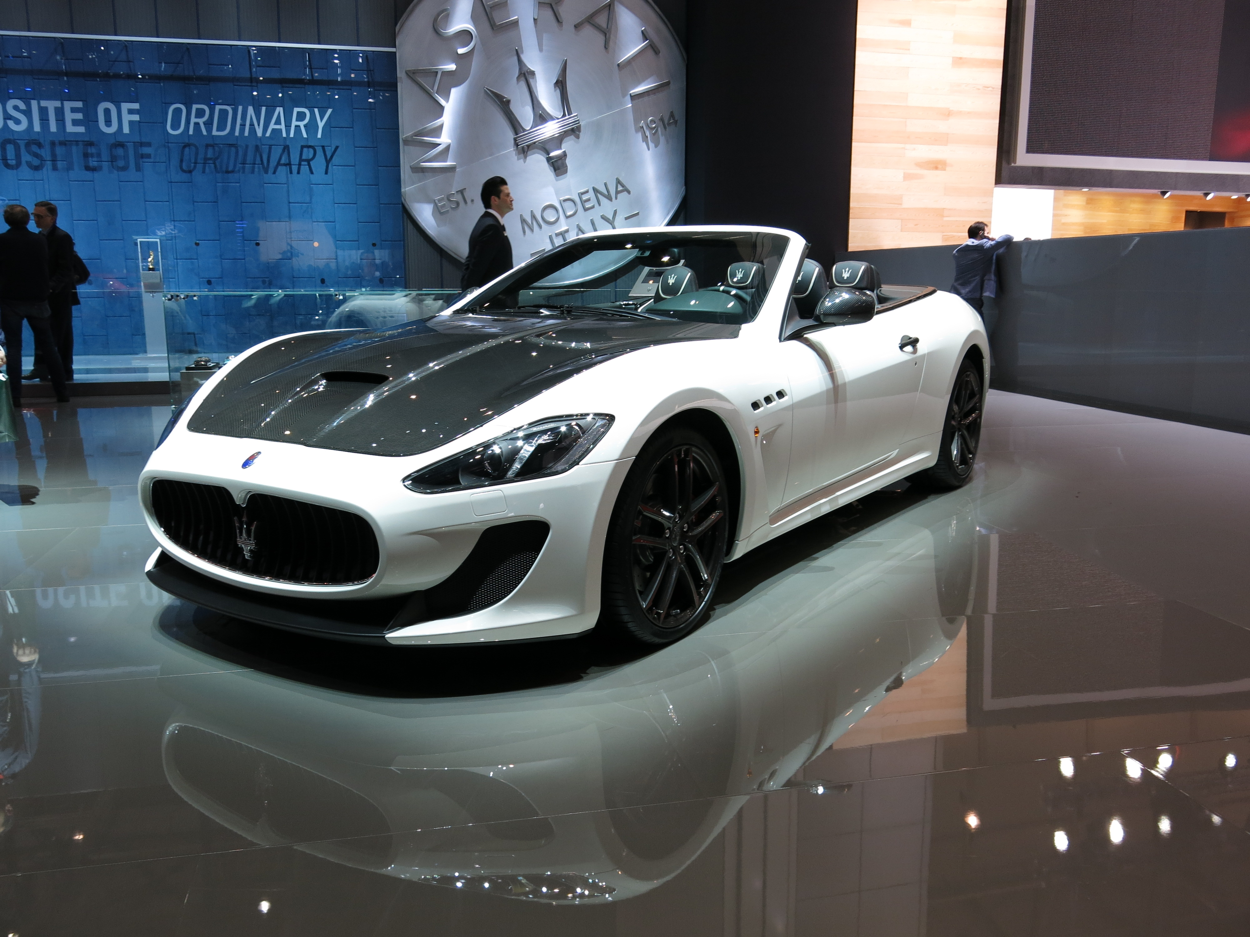 Geneva Motor Show 2015 (photo taken on the first press day)